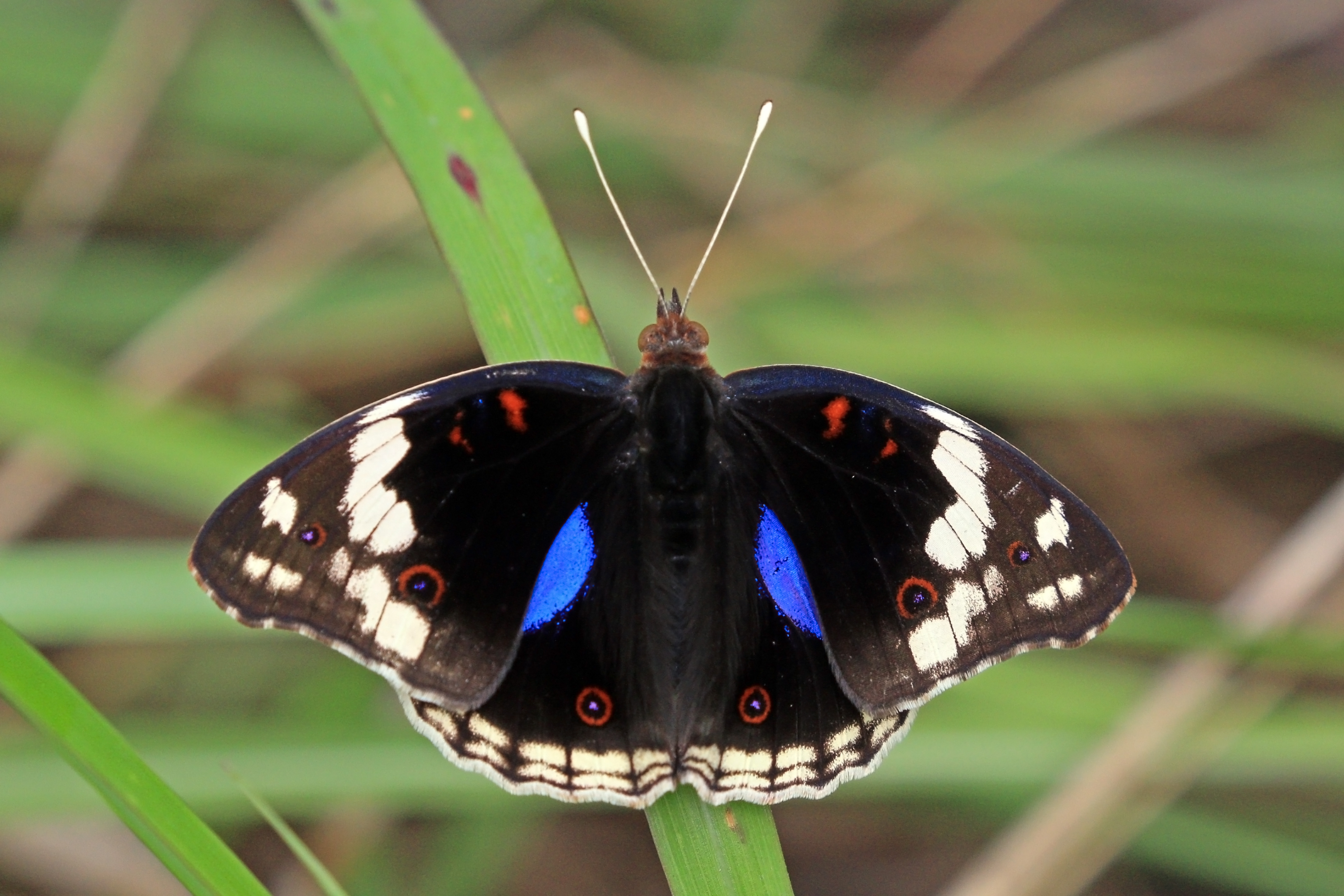 Blue pansy (Junonia oenone oenone), Queen Elizabeth Park, Uganda